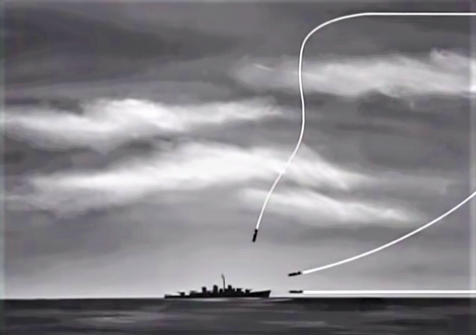 Figure of attack from 3 routes of Kamikaze